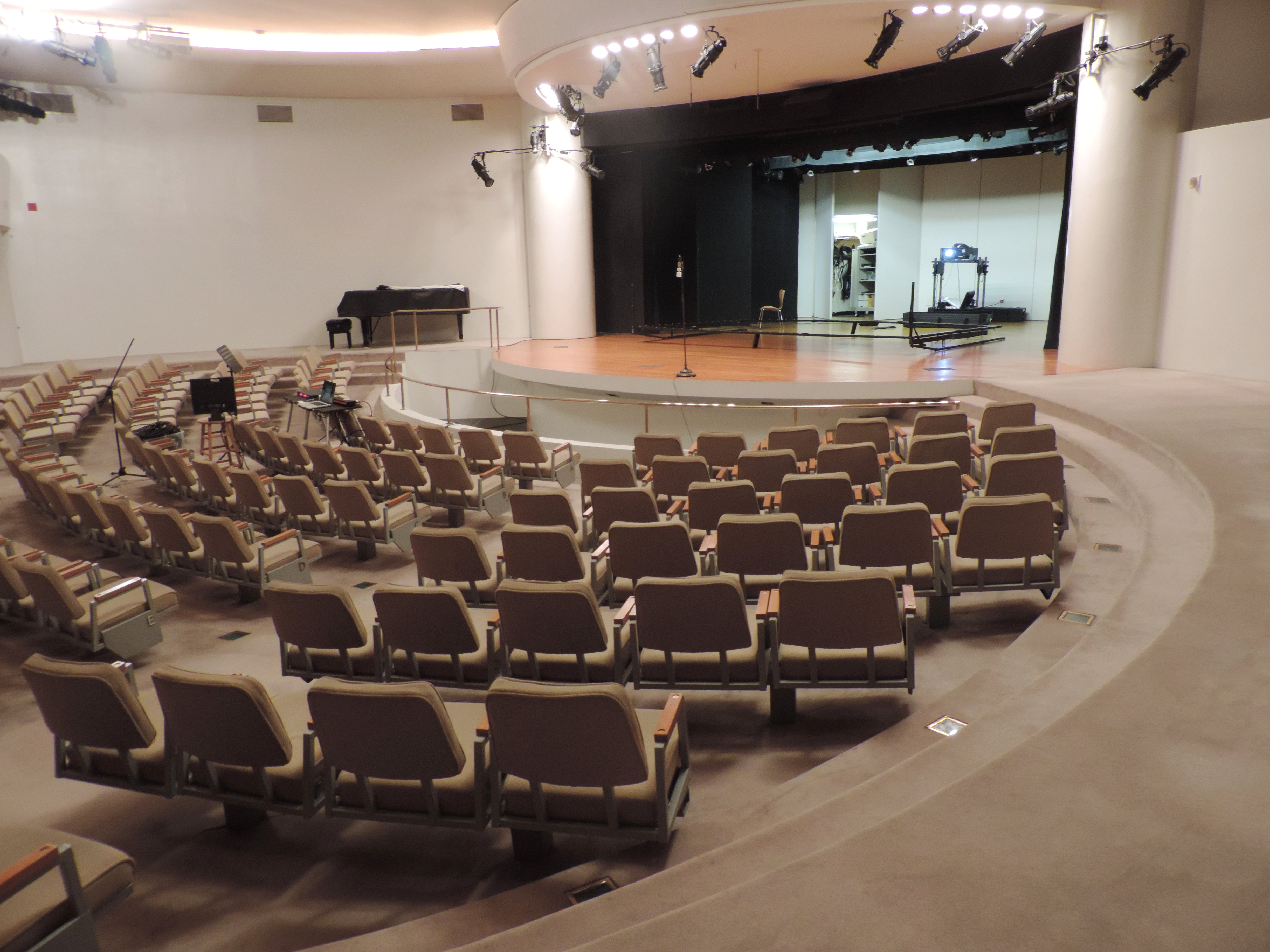 Looking towards stage.